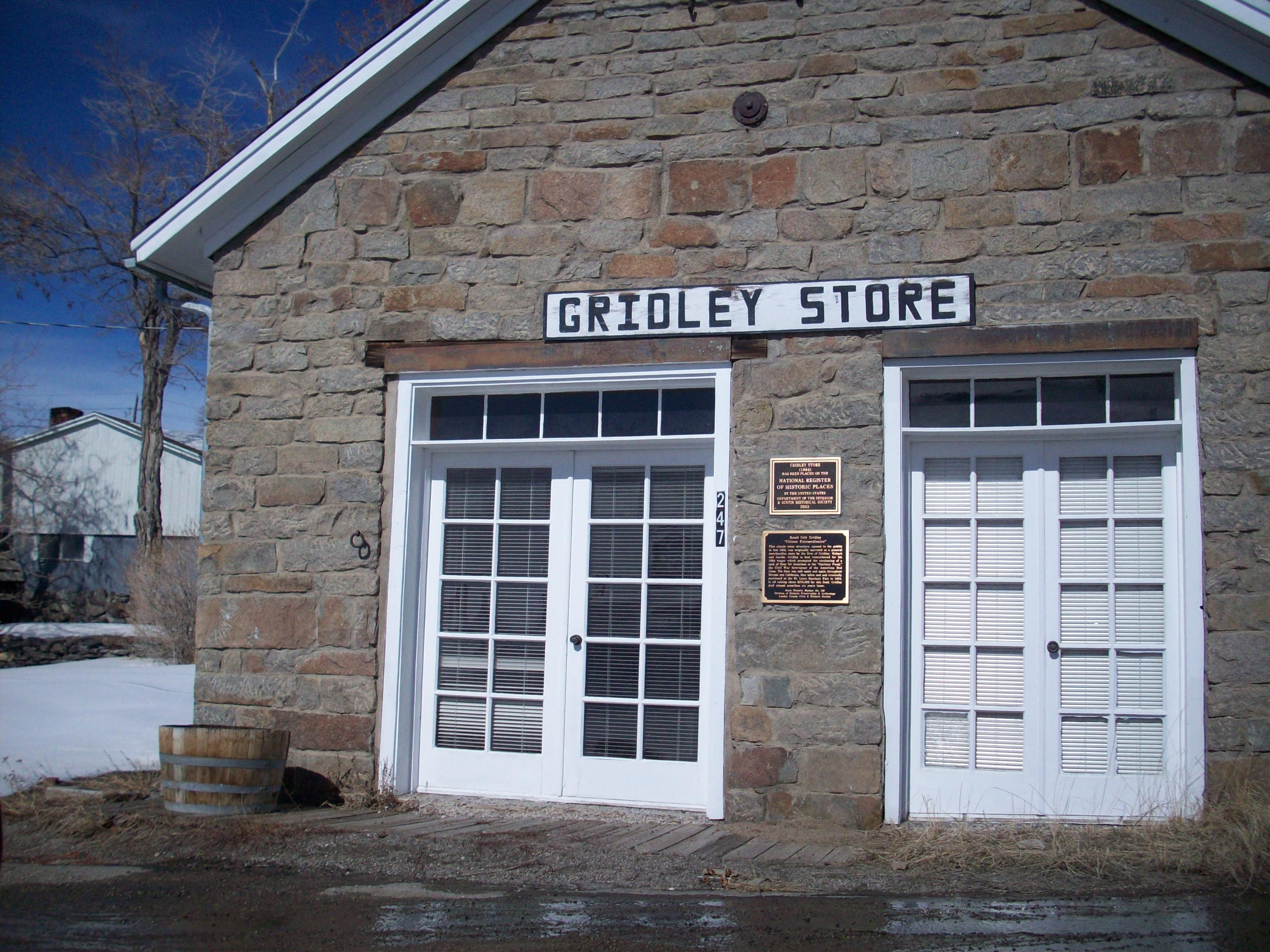 Reuel Colt Gridley's general store in Austin, Nevada.